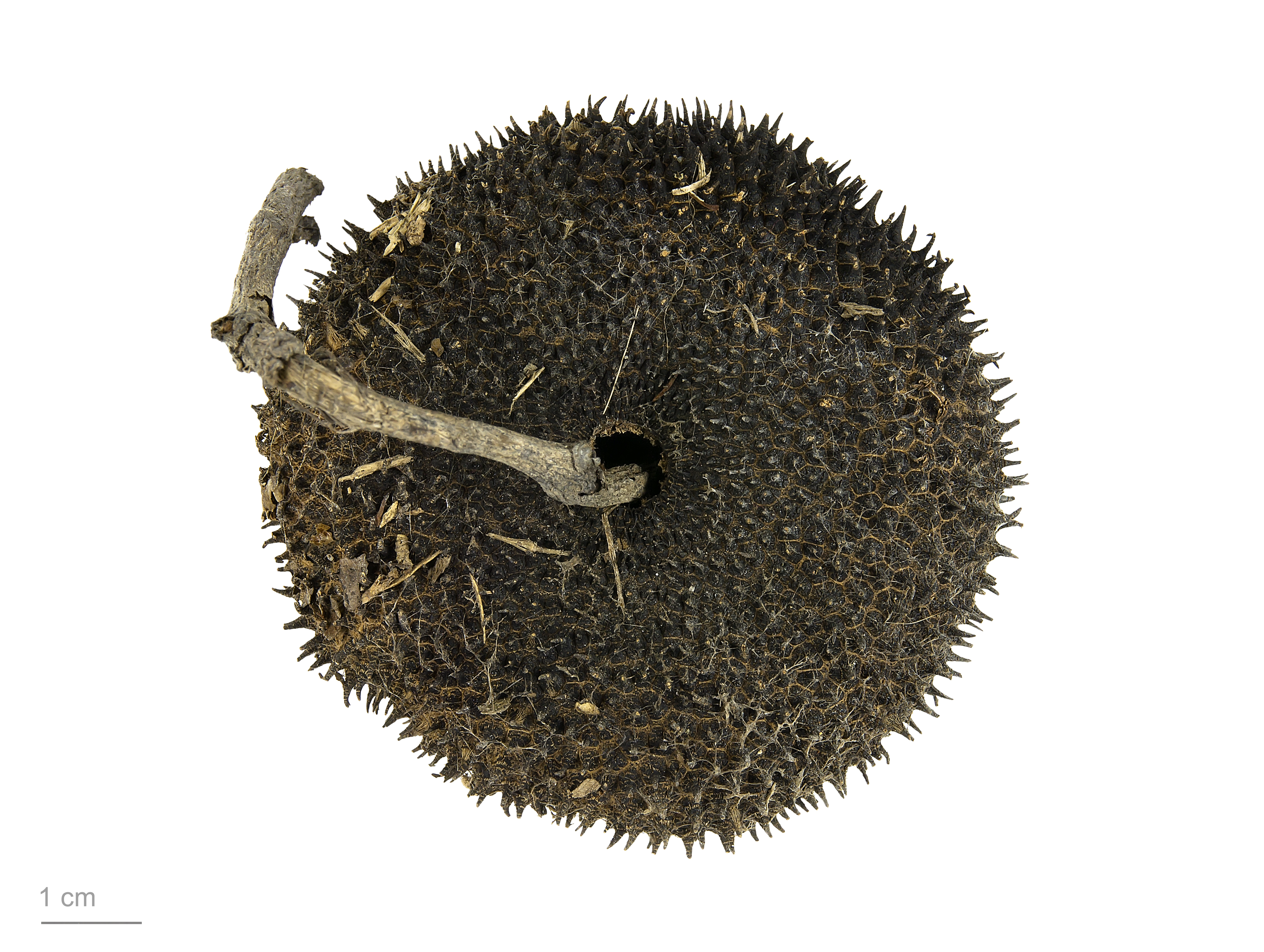 Apeiba petoumo, fruits